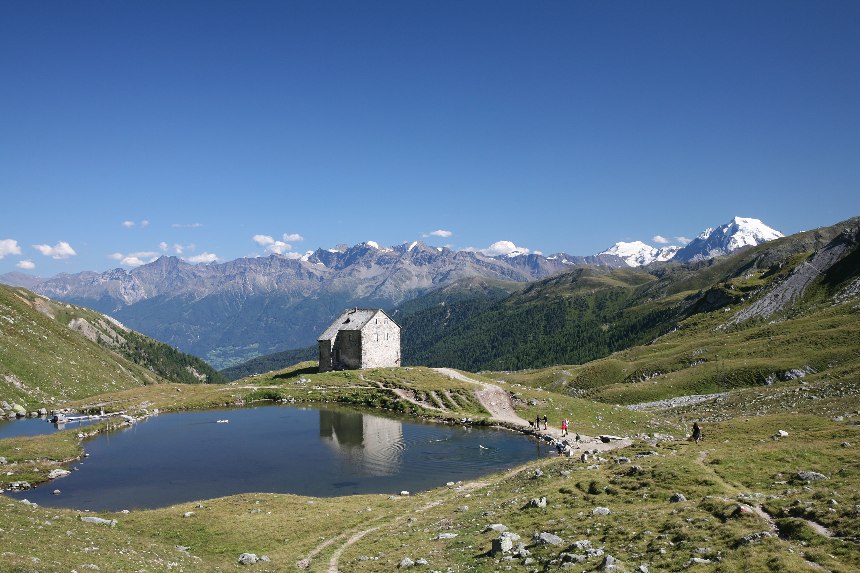 Abandoned Pforzheim lodge in the Schlinig valley, Italy. The rightmost peak in the background is the Ortler, the highest peak in South Tyrol.